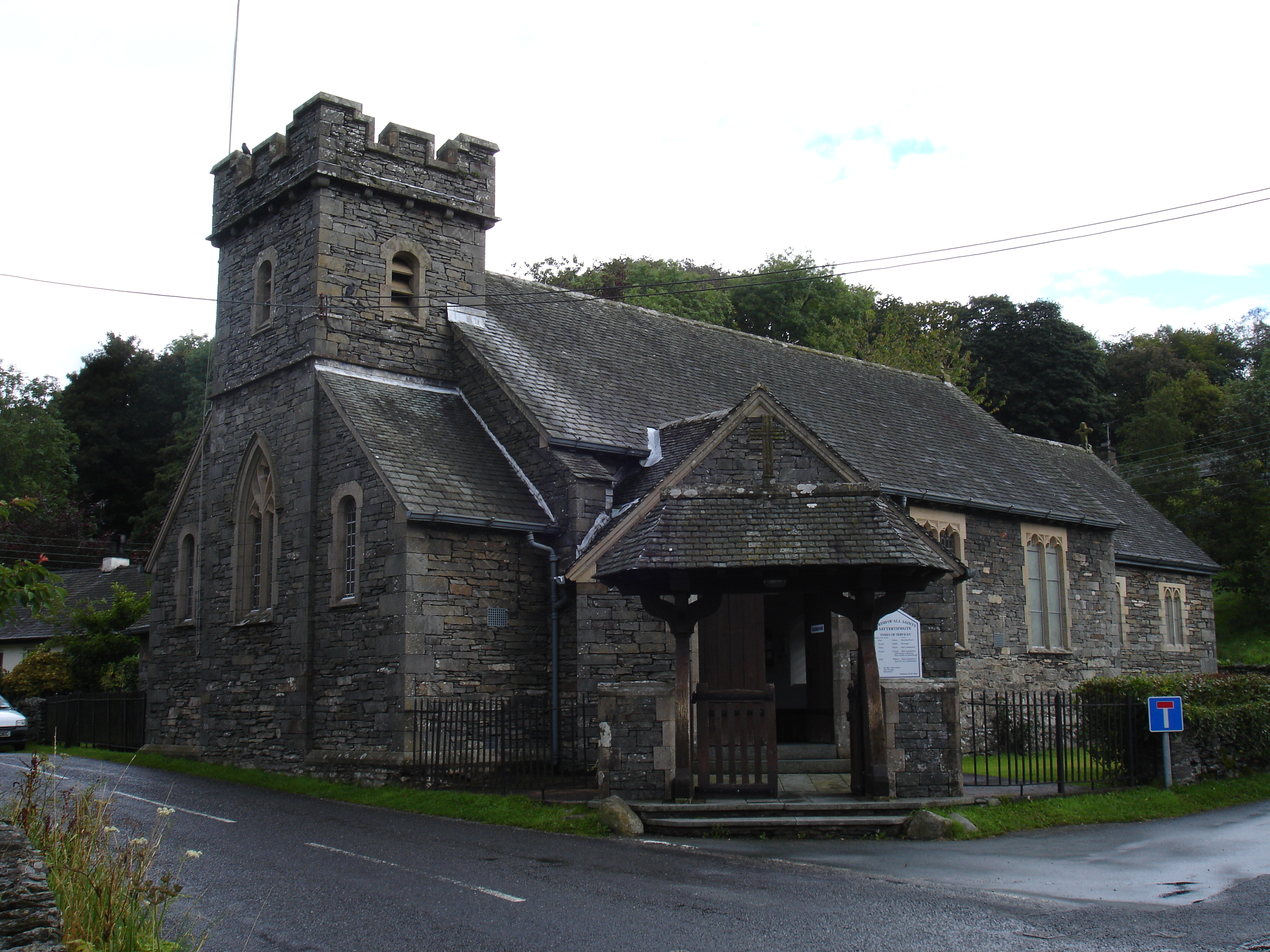 Photograph of All Saints' Parish Church, Satterthwaite, Cumbria, England